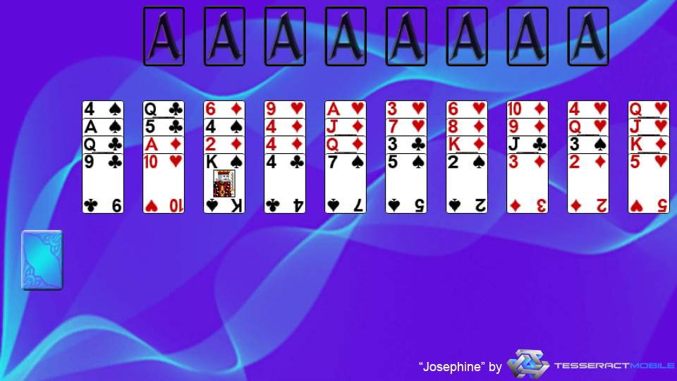 This image is a screenshot of the solitaire game "Josephine". This image is protected under the Creative Commons Attribution ShareAlike 3.0. Evidence can be found here